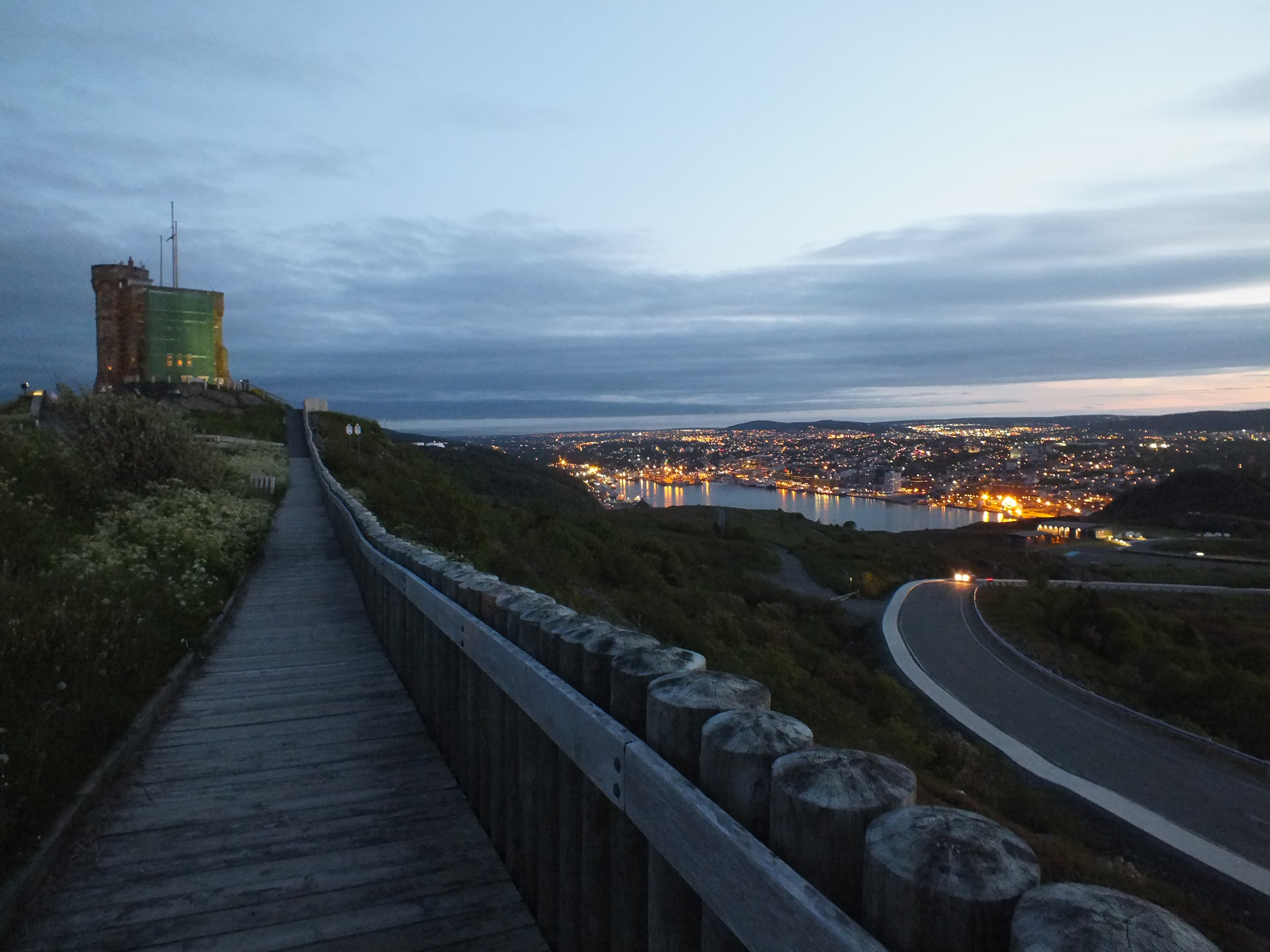 Sun set at Cabot Tower with St John's Newfoundland in the background at Signal Hill National Historic Site of Canada.